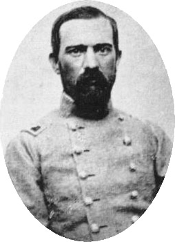 B&W, RECTANGULAR COPY OF OVAL PHOTO OF WILLIAM PENDER, A CONFEDERATE OFFICER KILLED AT GETTYSBURG, FOR WHOM PENDER COUNTY, N.C. WAS NAMED. MADE BY F. M. GILLE IN 1890. North Carolina Museum of History